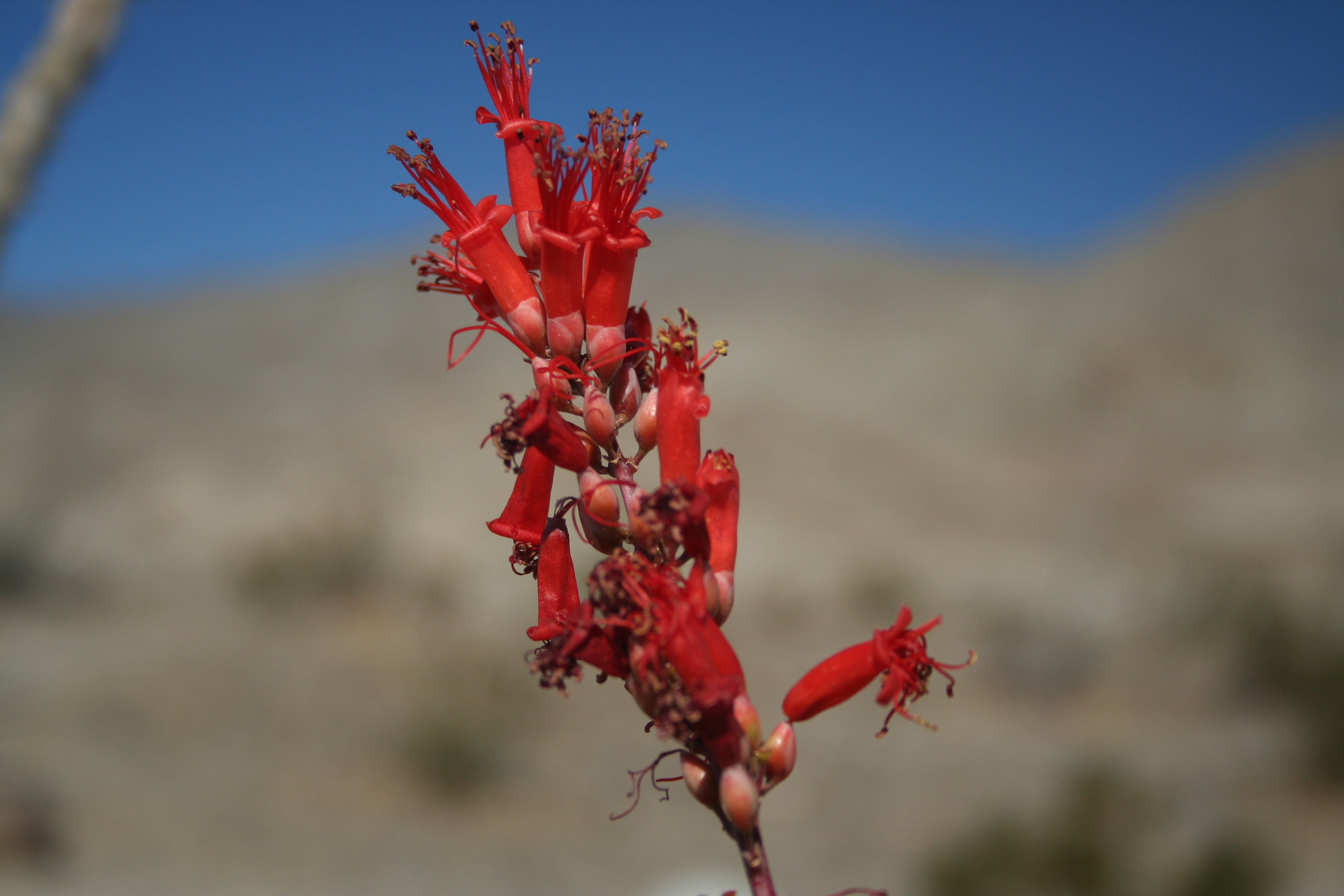 Photographed by and copyright of (c) David Corby (User:Miskatonic, uploader) 2006 Image of an Ocotillo Flower taken in Anza Borrego